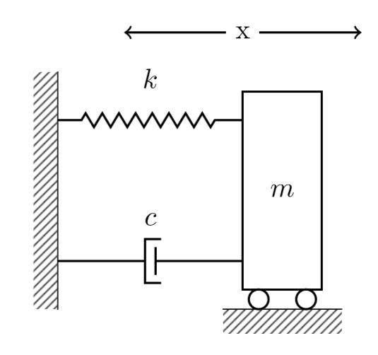 Mass-Spring-Dashpot system